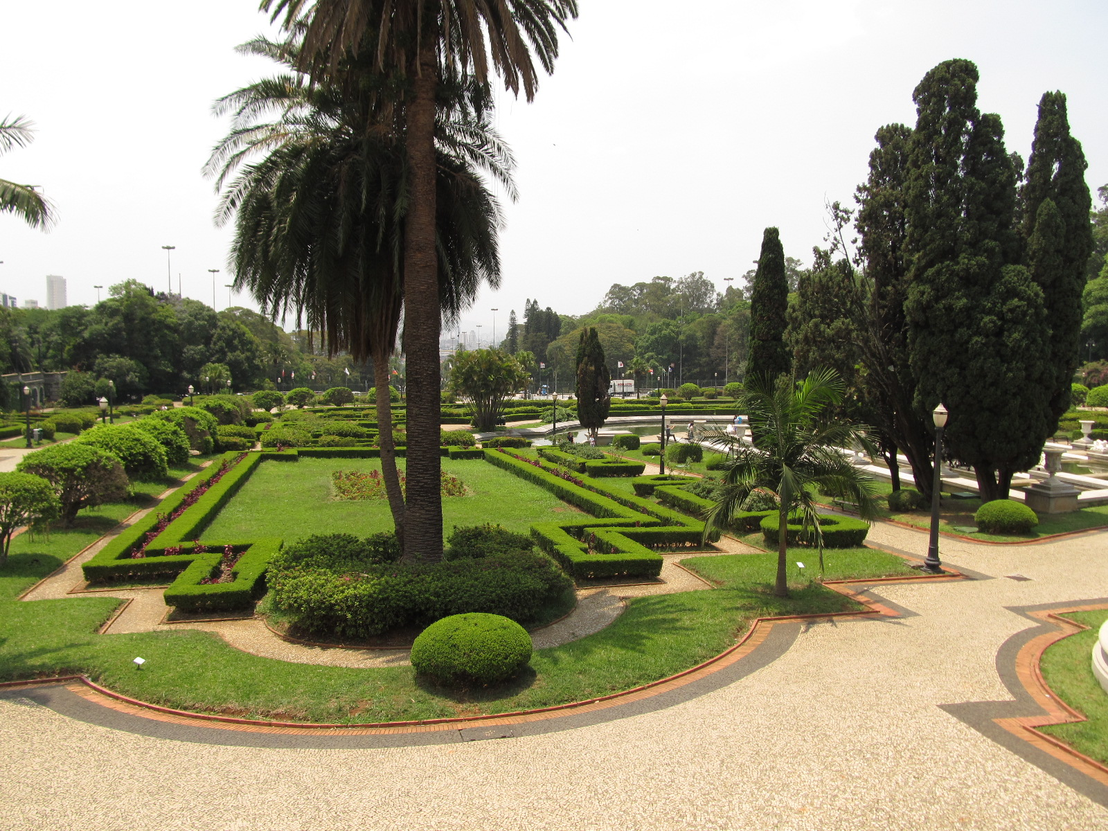 Gardens outside the Museu Paulista in Sao Paulo, Brazil